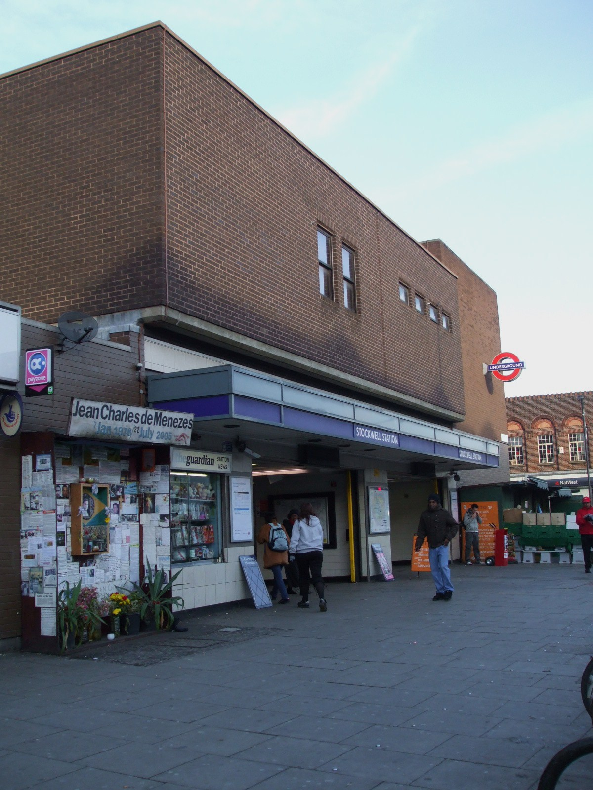 Stockwell tube station building, with memorial to Jean-Charles de Menezes visible in the foreground